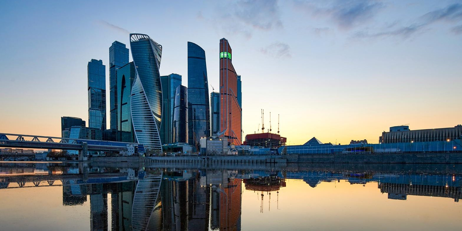 Moscow International Business Center "Moscow-City"